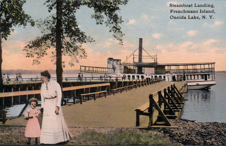 Steamboat Landing at Frenchmen's Island - Oneida Lake outside Syracuse, New York about 1910